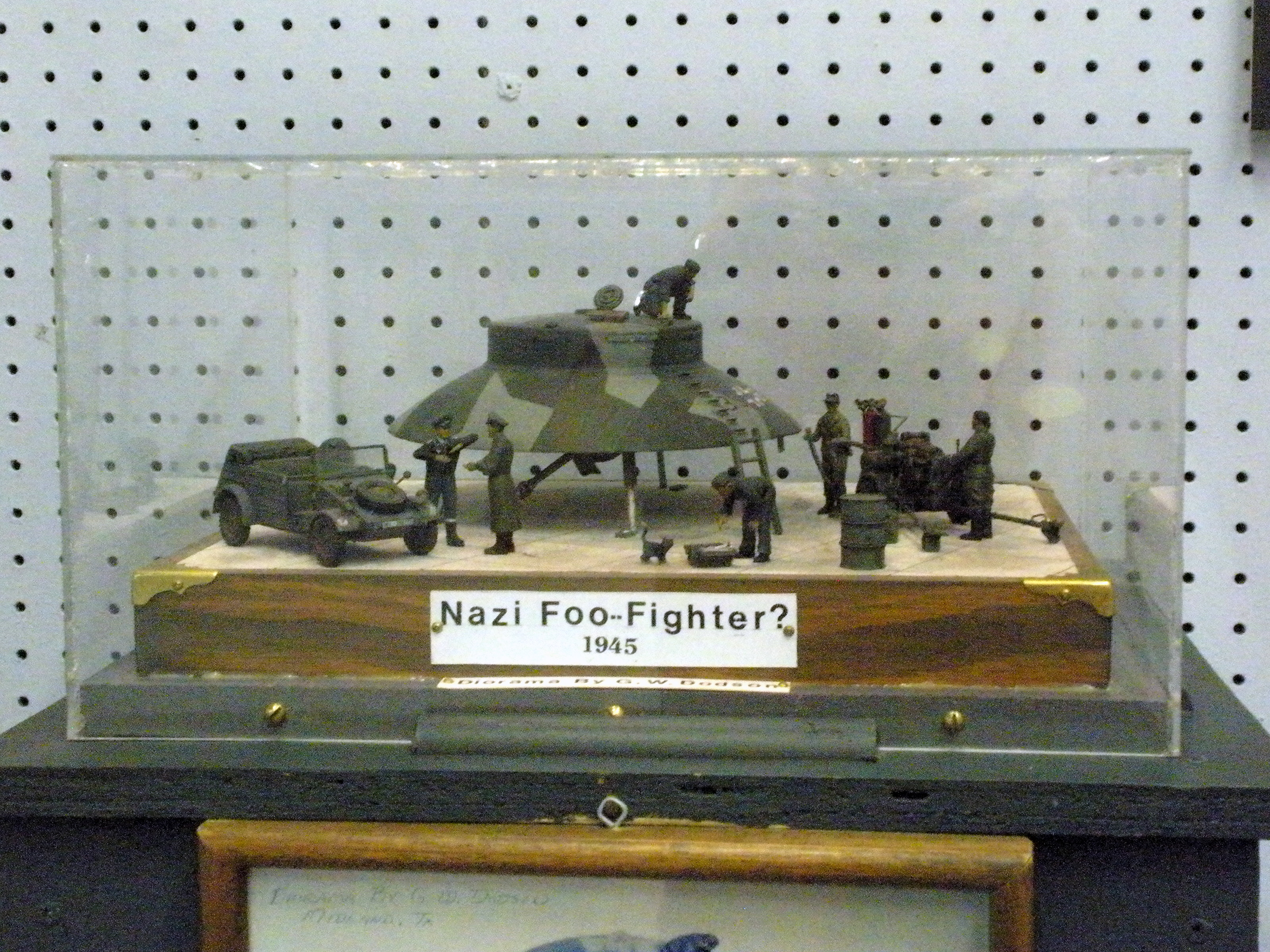 Diorama of a Nazi Foo-Fighter by G. W. Dodson, Roswell UFO Museum, Roswell, New Mexico, USA.